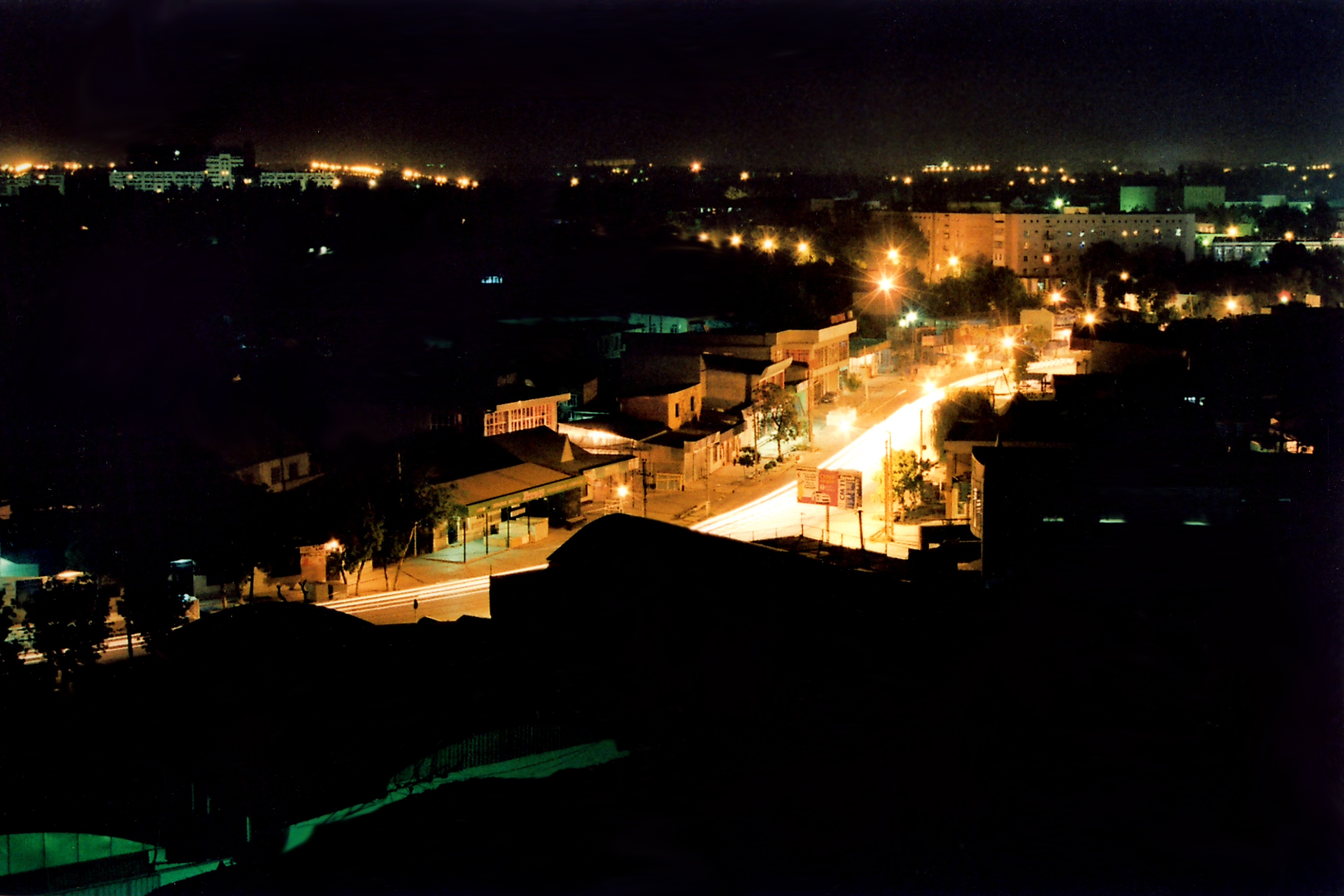 This is a view of the Shymkent city's historical region ("Old city").